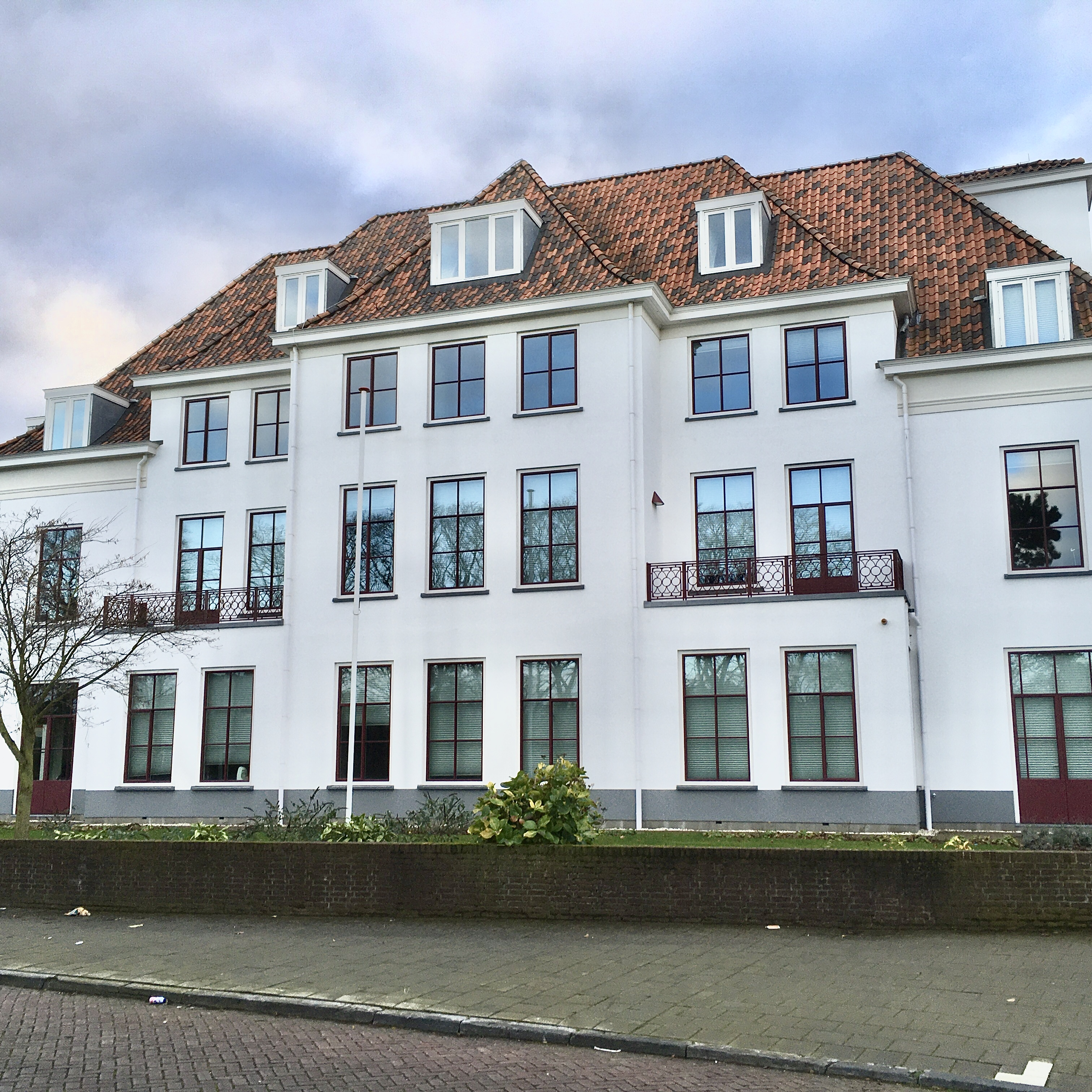 Schimmelpennincklaan 20-22, 2517JN The Hague. Head quarters of the T.M.C. Asser Institute, Center for International & European Law.